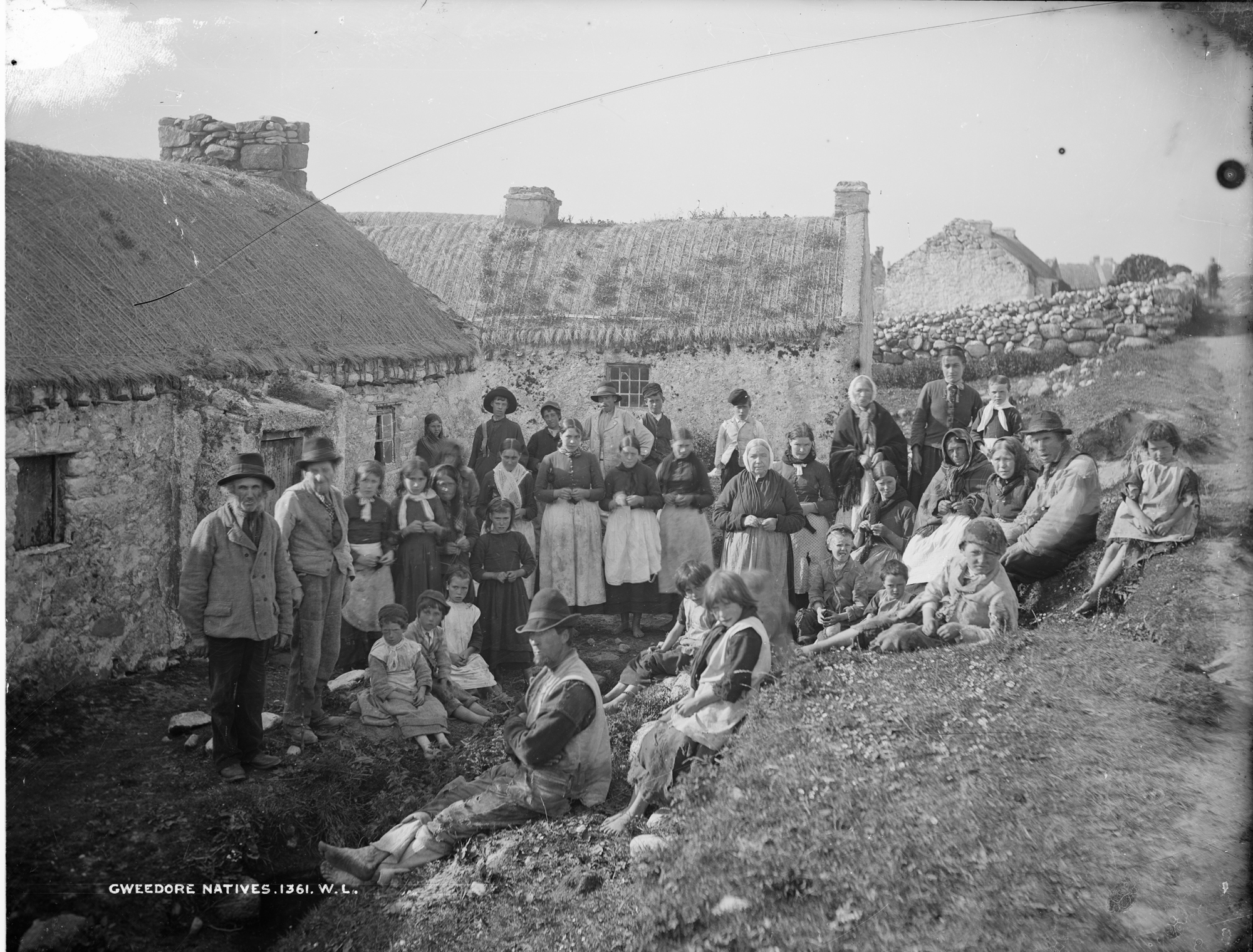 We have a few photographs which we had readied for the Tríd an Lionsa program. We felt that we would not get the opportunity to post them in the normal course, therefore we have decided to post a number of them over the holiday period. We hope you enjoy them and as always we welcome your comments and observations. Photographer: Robert French Collection: The Lawrence Photograph Collection Date: Circa 1865-1914 NLI Ref: L_ROY_01361 You can also view this image, and many thousands of others, on the NLI’s catalogue at